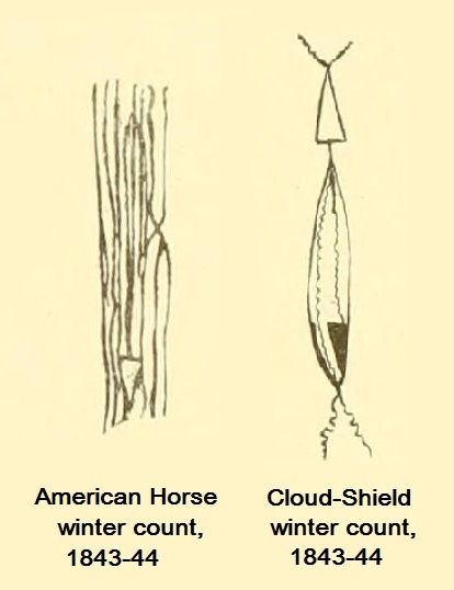 Pictures from two Lakota winter counts, 1843-1844. A Sacred Arrow of the Cheyennes was returned by the Lakotas. The Pawnee had captured all four arrows years before. The Lakotas found one during an attack on a Pawnee village in 1843. The zigzag lines from or around the arrow designate it is a sacred object